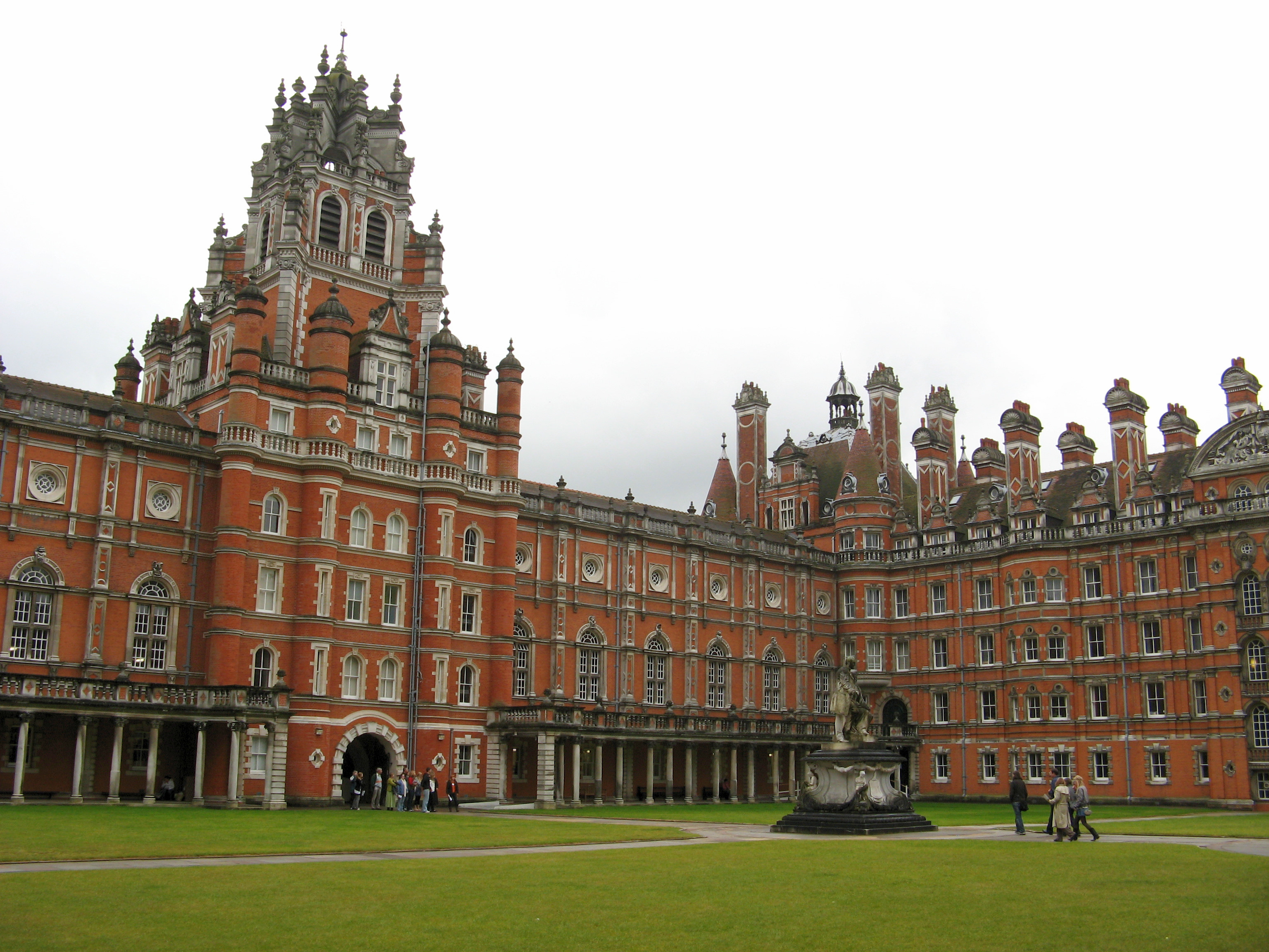 Looking toward the south in the south quadrangle of the Founder's Building, Royal Holloway, University of London, Egham.